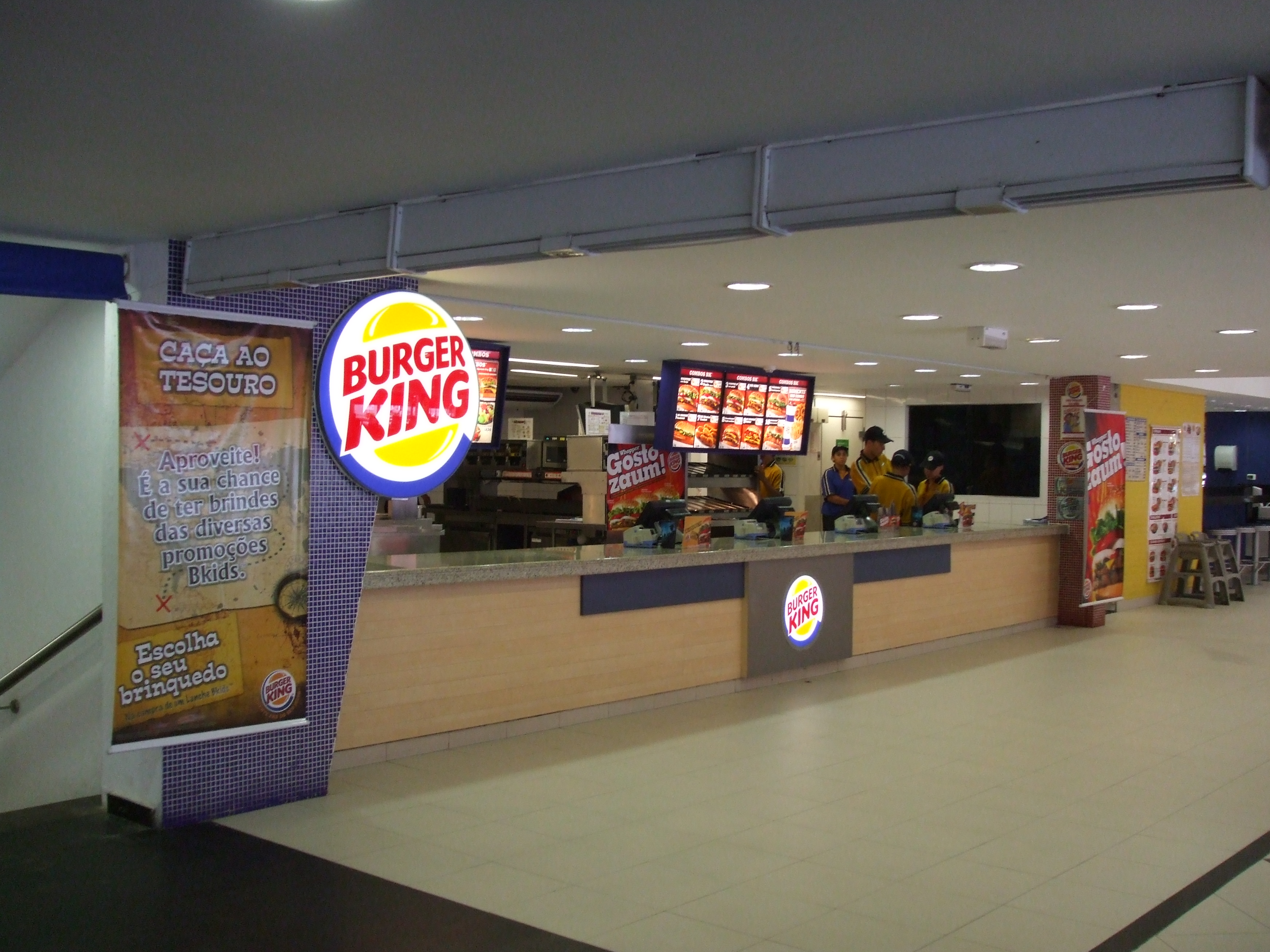 Burger King in Guaruja, Brazil